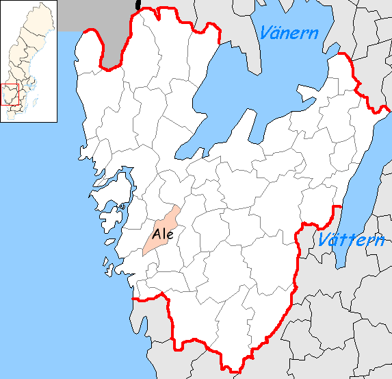 Ale Municipality in Västra Götaland County Designed by me. Mere outlines are a PD source from